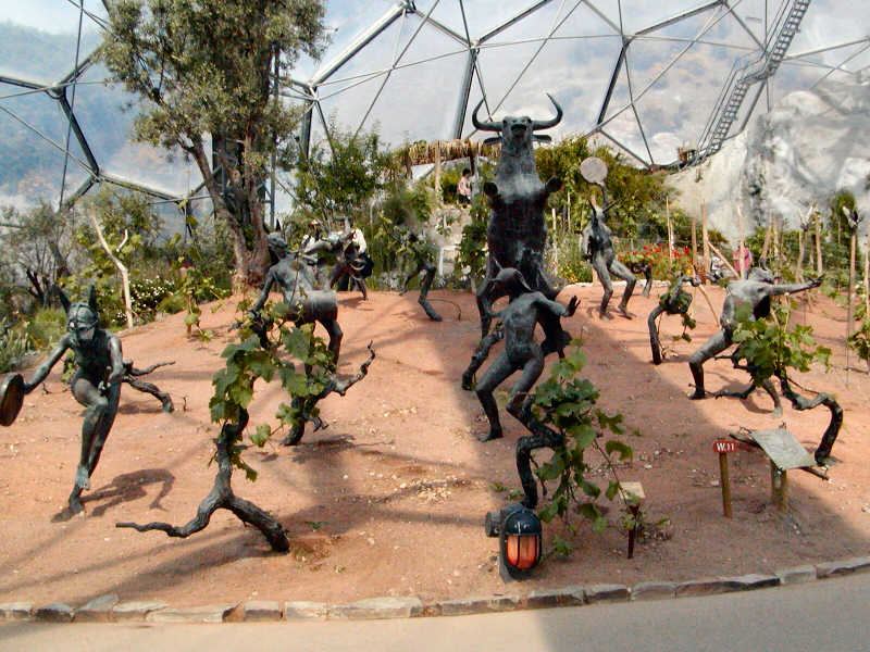 Eden Project: Tim Shaw's artwork "Rites of Dionysus" (2004)